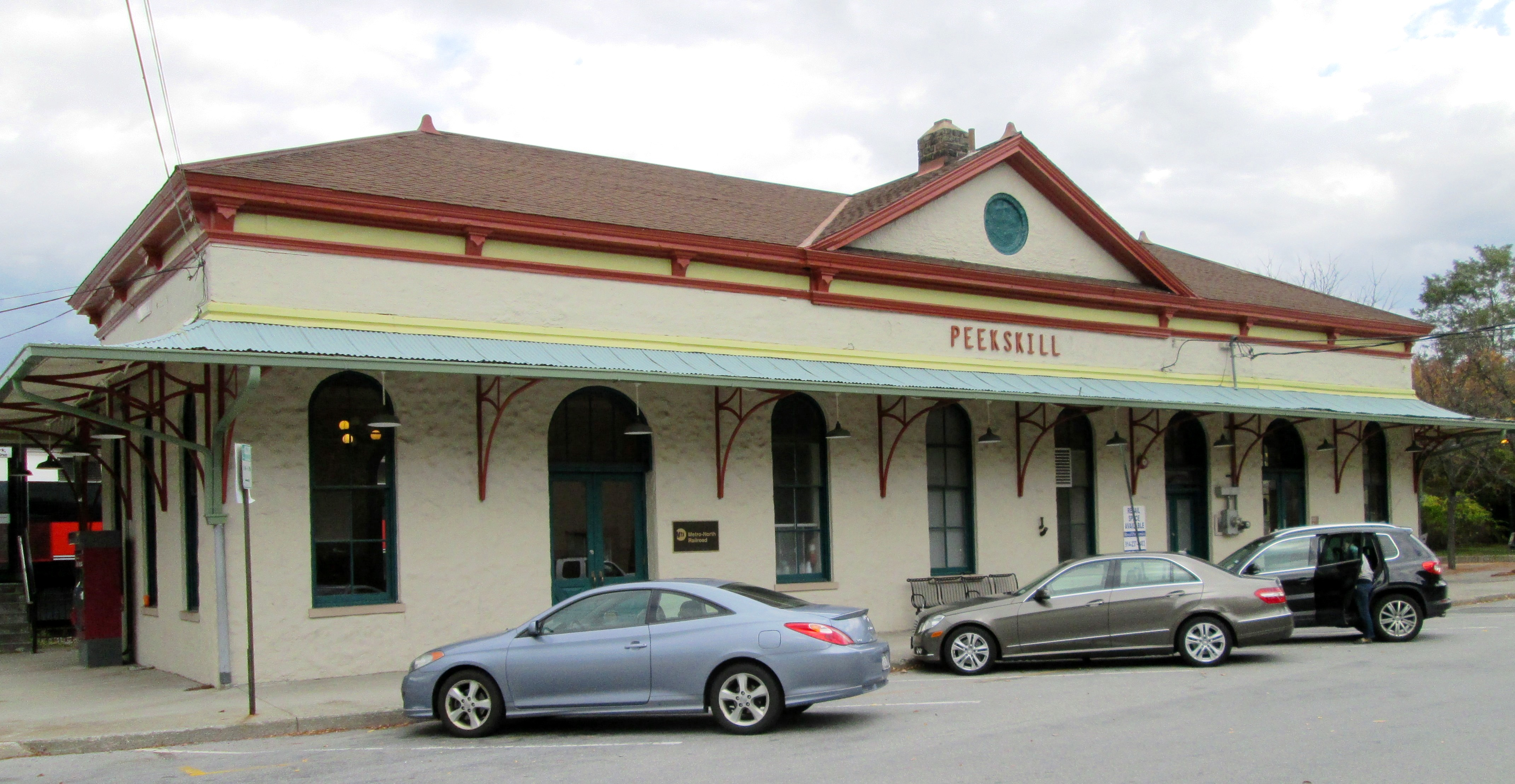 The station house for the Peekskill Metro-North Railroad station, on Railroad Avenue in Peekskill, New York.